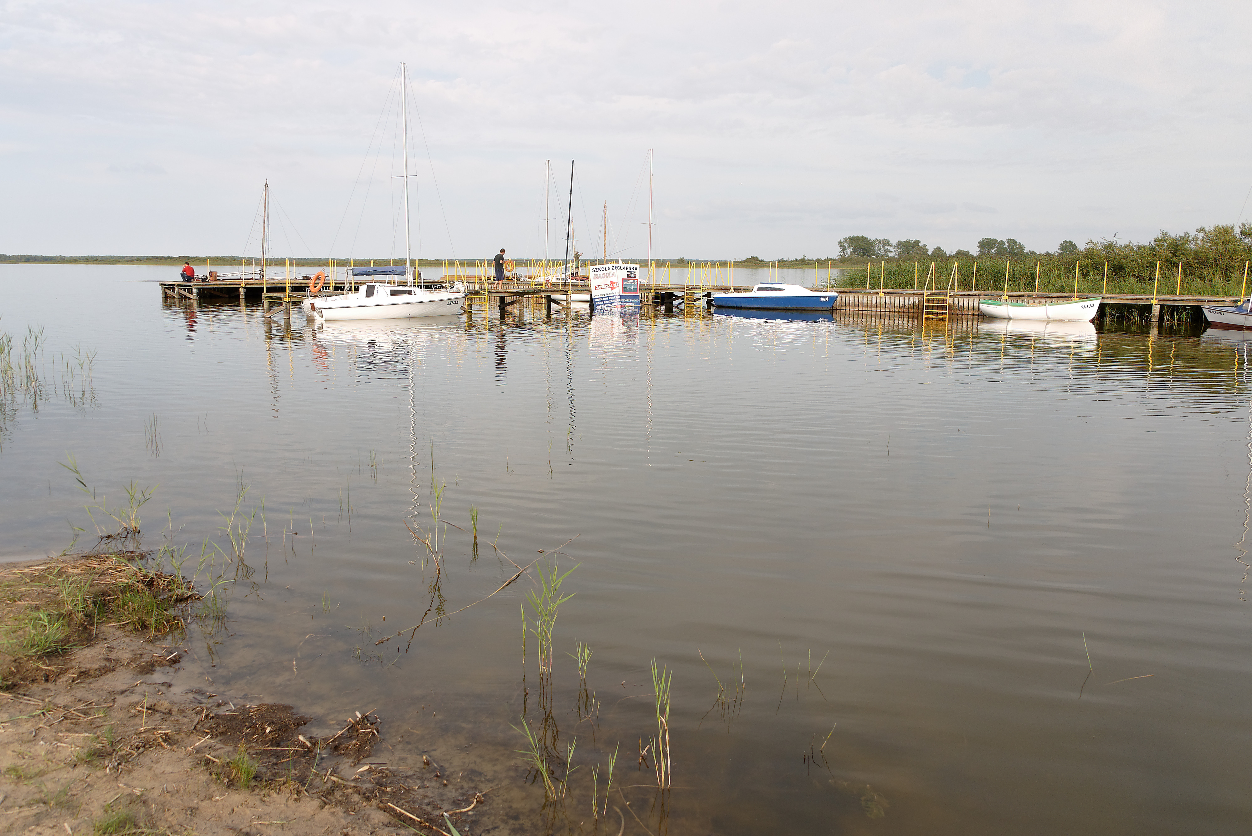 View on the Vietzker See from Lacko